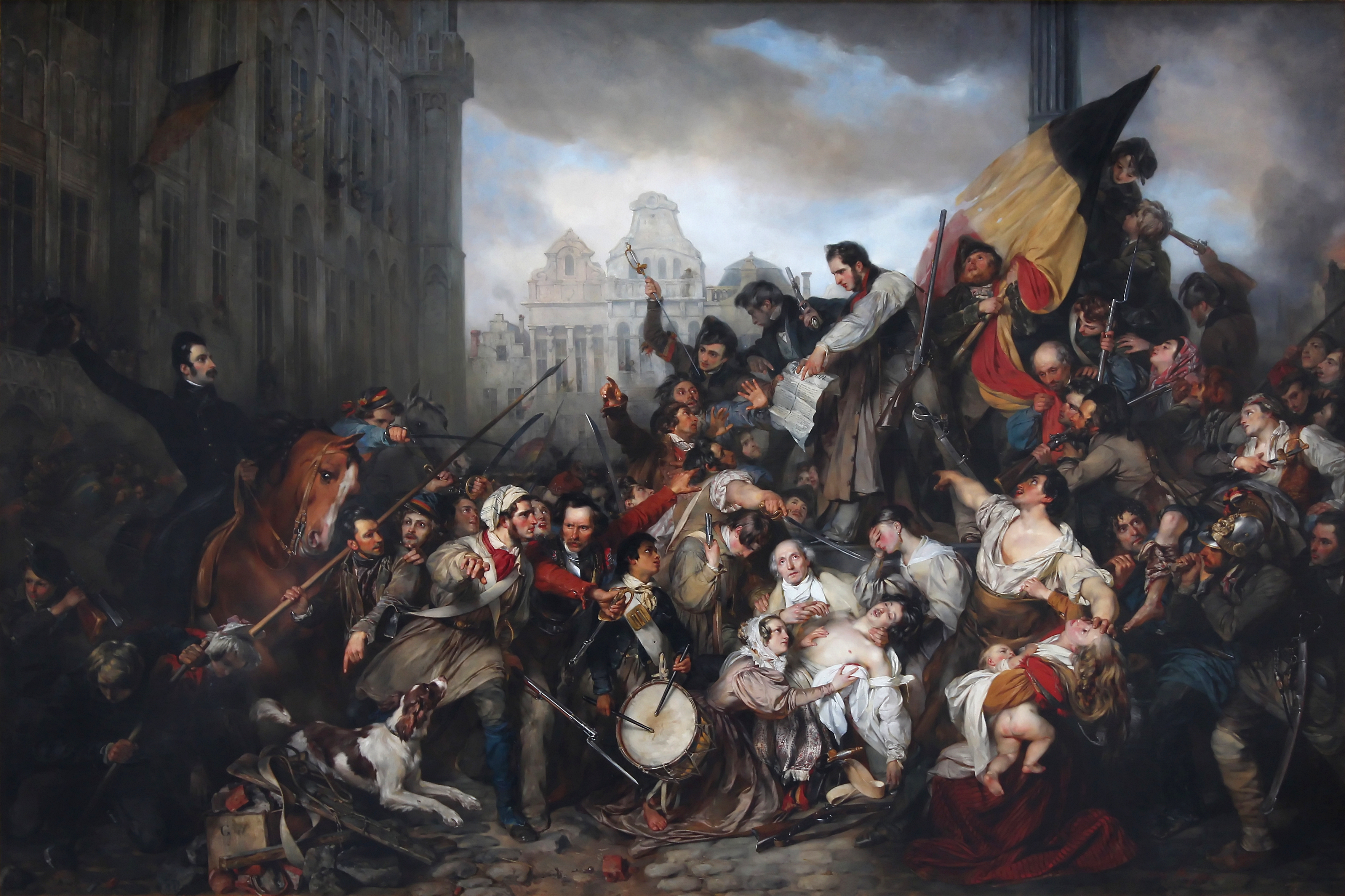 Men and women form a mound around a post in the streets of a city on the right of this painting. A tattered tricolour flag (of black, yellow, and red) is at the top, and beside this flag, a man stands with a paper in his hand. A man on his horse (on the left of the painting) is among the crowd at the base of the mound, and a dog campers just in front of his steed. The crowd bears swords, pikes, and guns affixed with bayonets. One of the women at the base of the mound cradles a baby, while two women and an old man grieve over a dead youth in their arms. The blue sky is overcast with grey smoke.